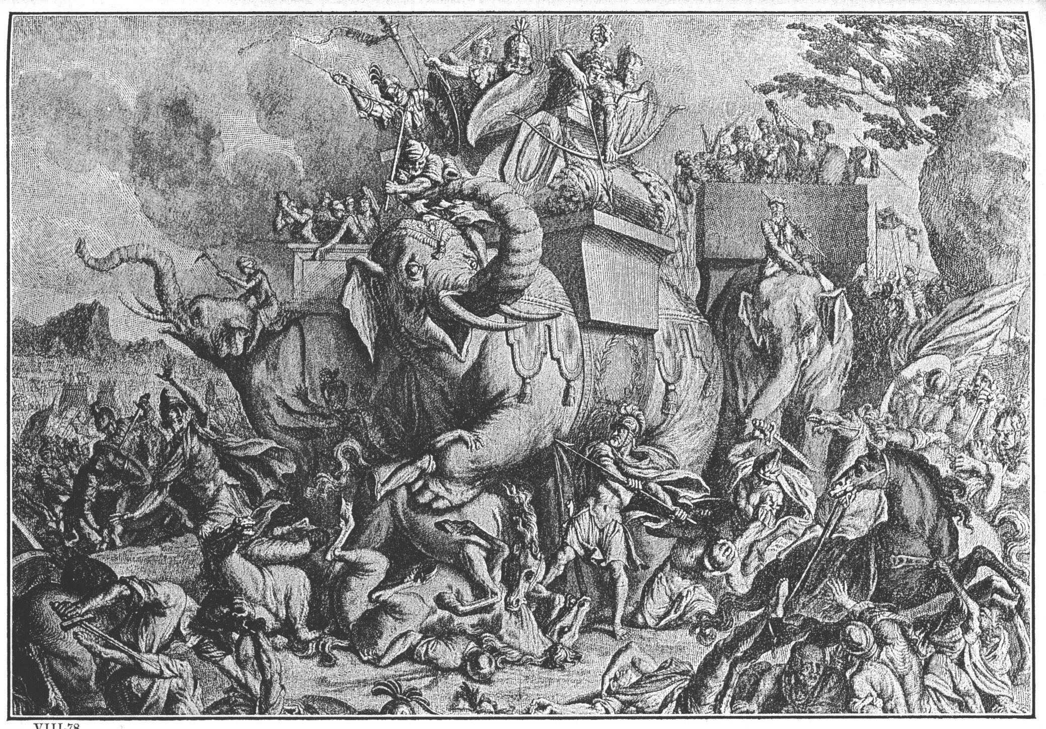 Eleazar's exploit as described in the bible, 1 Maccabees 6:45. Eleazar (Hebrew אֶלְעָזָר) is a son of Aaron. Copper plate engraving.